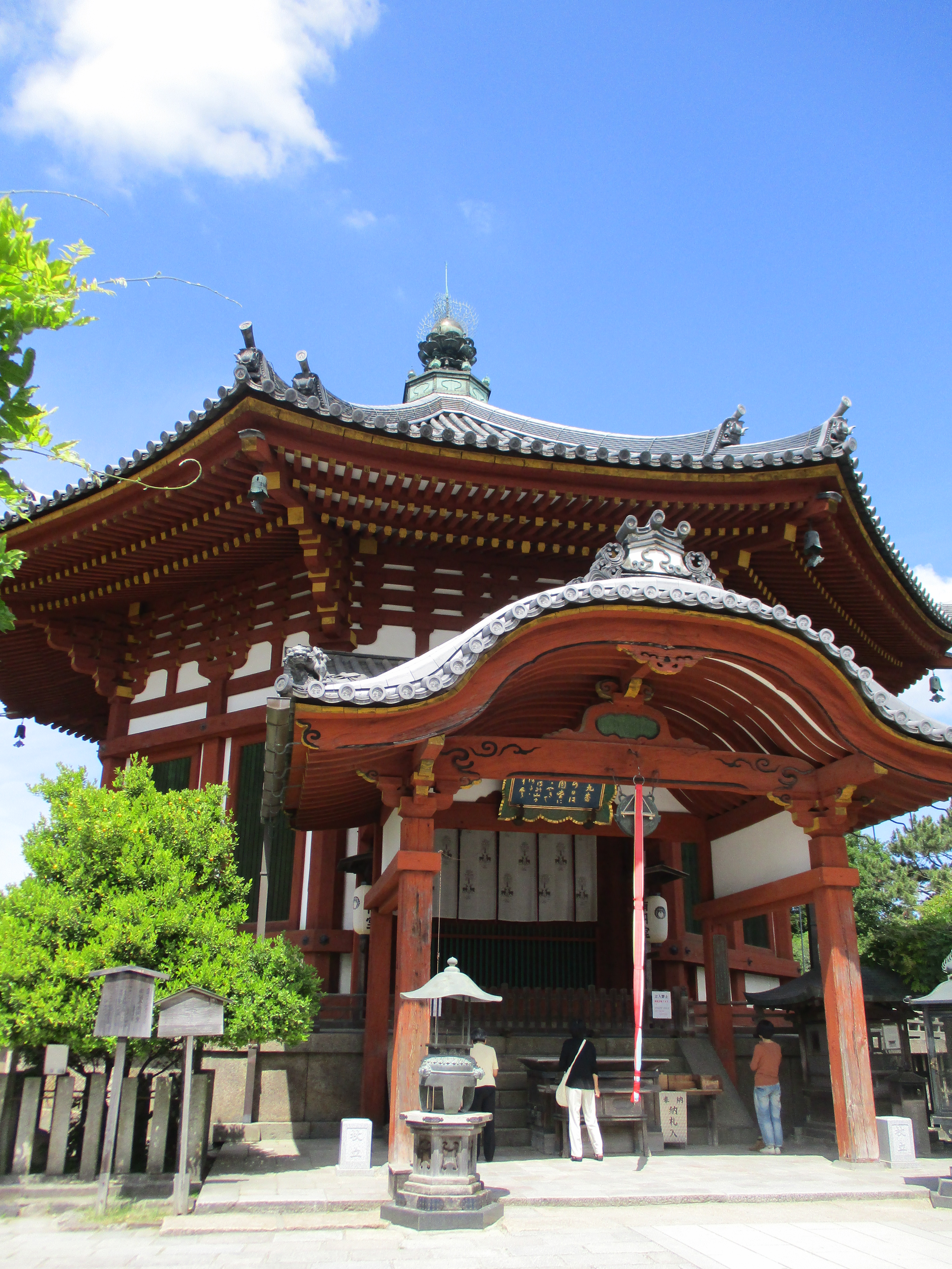 Nan-en-do, Kofukuji, Nara June 3rd, 2019.